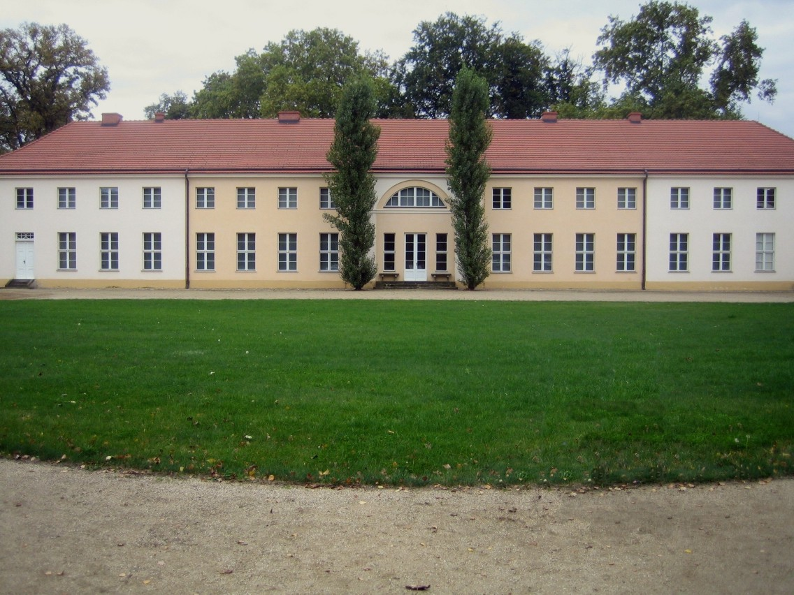 The palace in Paretz, a village near Potsdam, Germany. Front side.